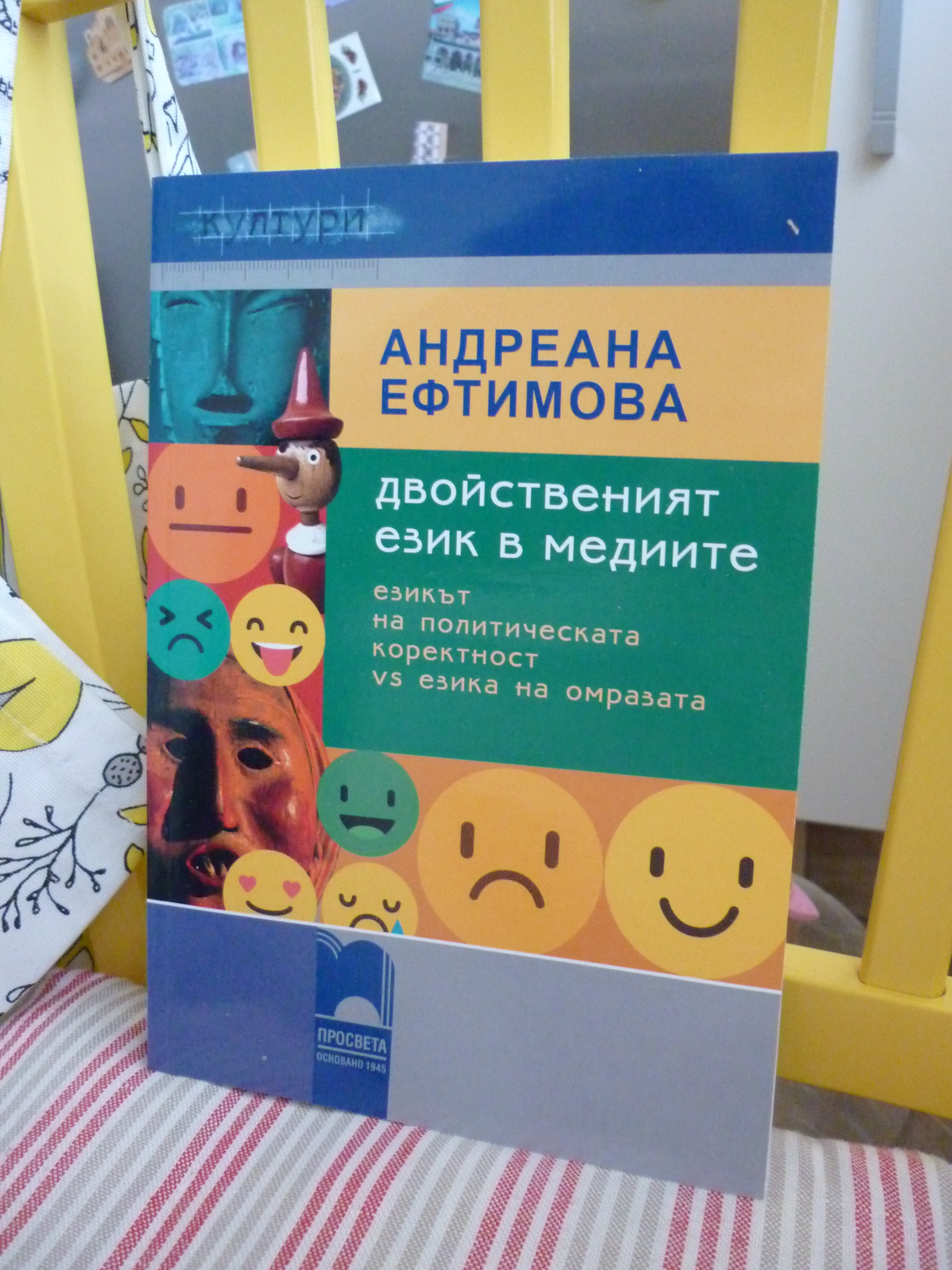 „Doblespeak in Media“, cover of the first Bulgarian edition, 2017